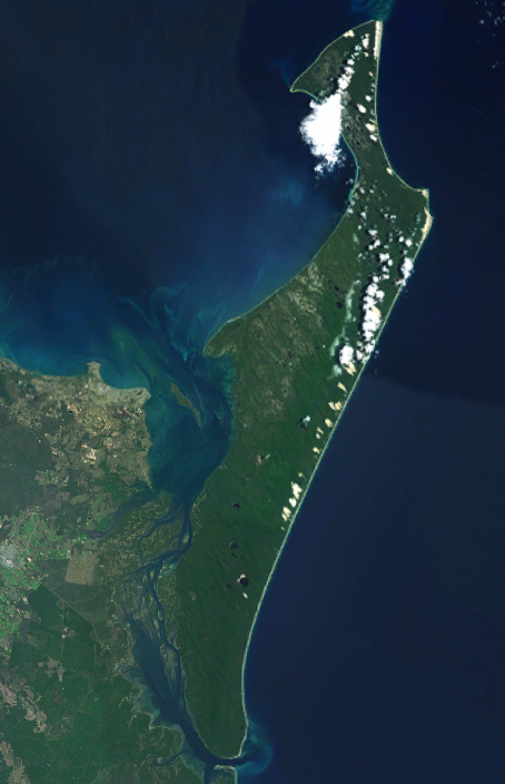 Fraser Island NASA World Wind Landsat montage.